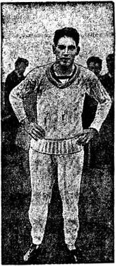 George Weightman-Smith.